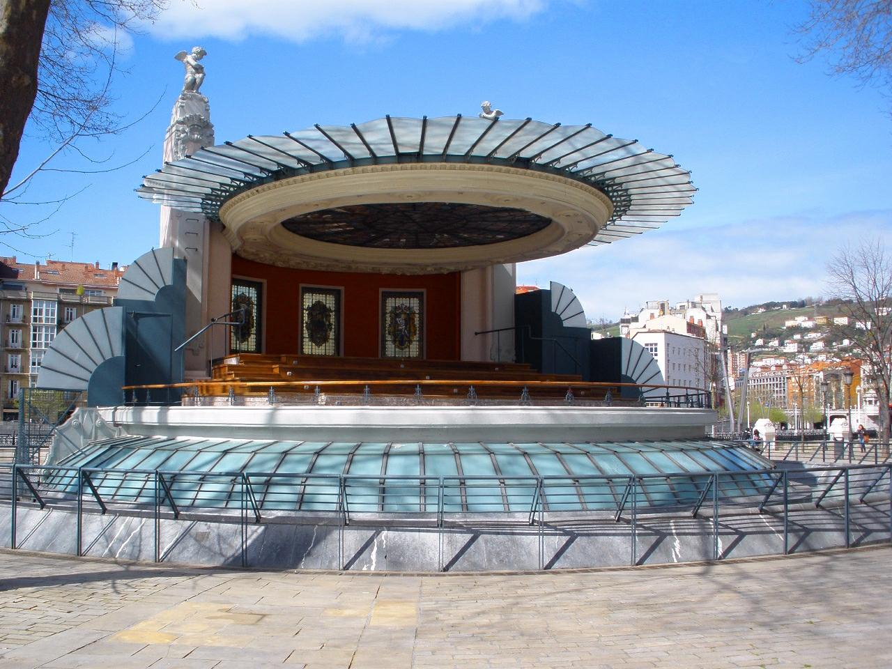 Puesto de música en El Arenal de Bilbao (País Vasco, España)